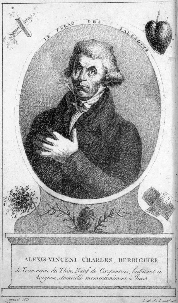 Alexis Vincent Charles Berbiguier de Terre-Neuve du Thym 1821